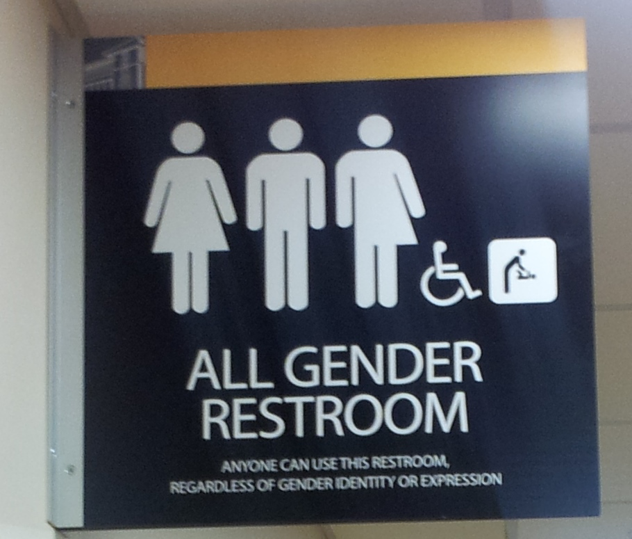 Pictogram for an all gender restroom (unixex toilet) at Metropolitan State University, Saint Paul, Minnesota. Installed in December 2015. Caption reads "ALL GENDER RESTROOM/ANYONE CAN USE THIS RESTROOM, REGARDLESS OF GENDER IDENTITY OR EXPRESSION"